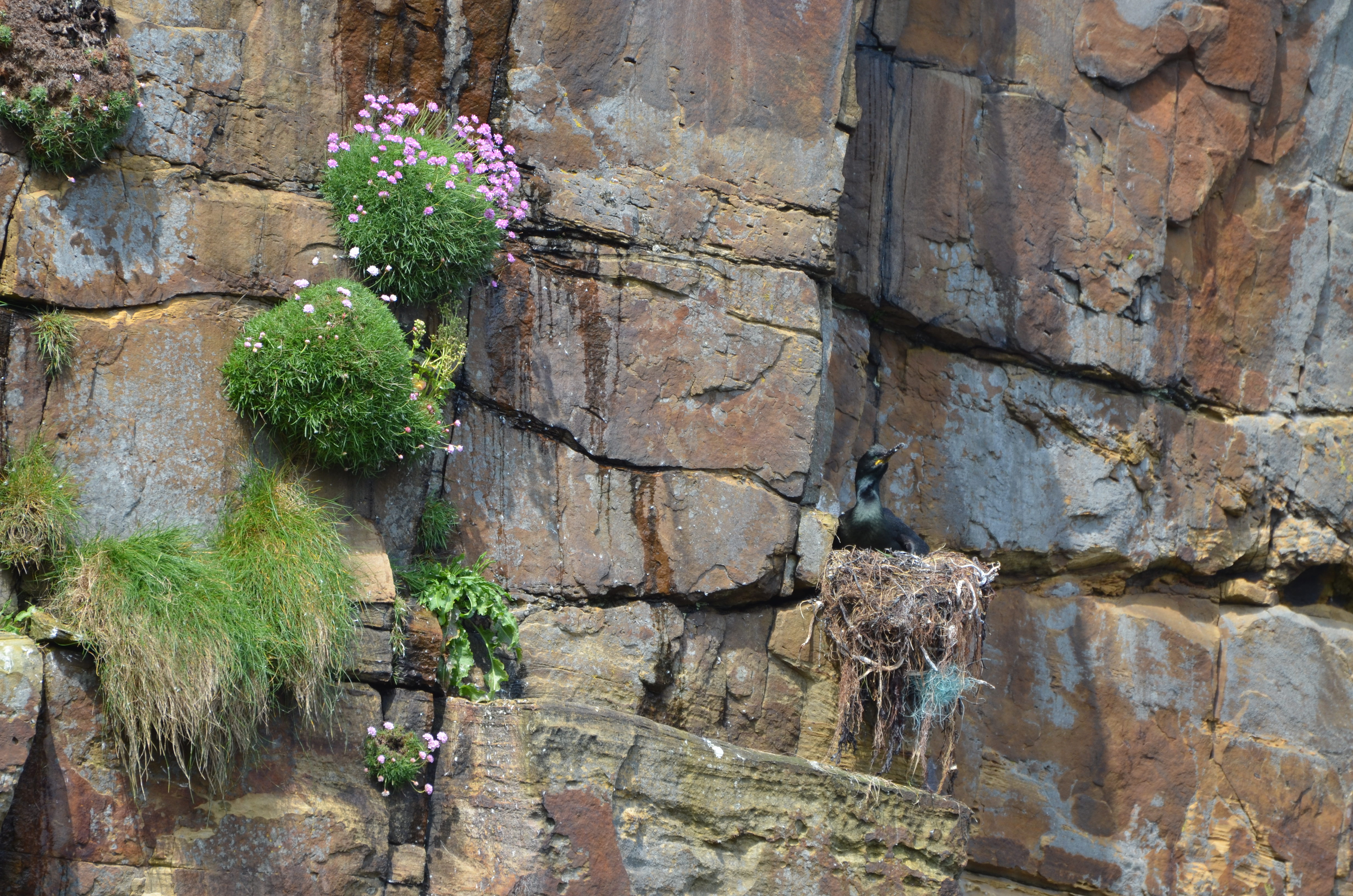 European Shag nesting on Deerness